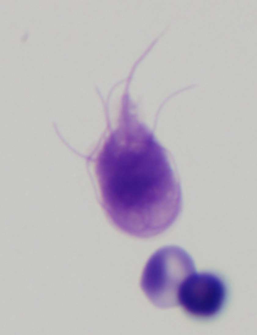 Giardia lamblia seen in a cytologic preparation (cytospin of formalin from small bowel biopsy of a patient with giardia).